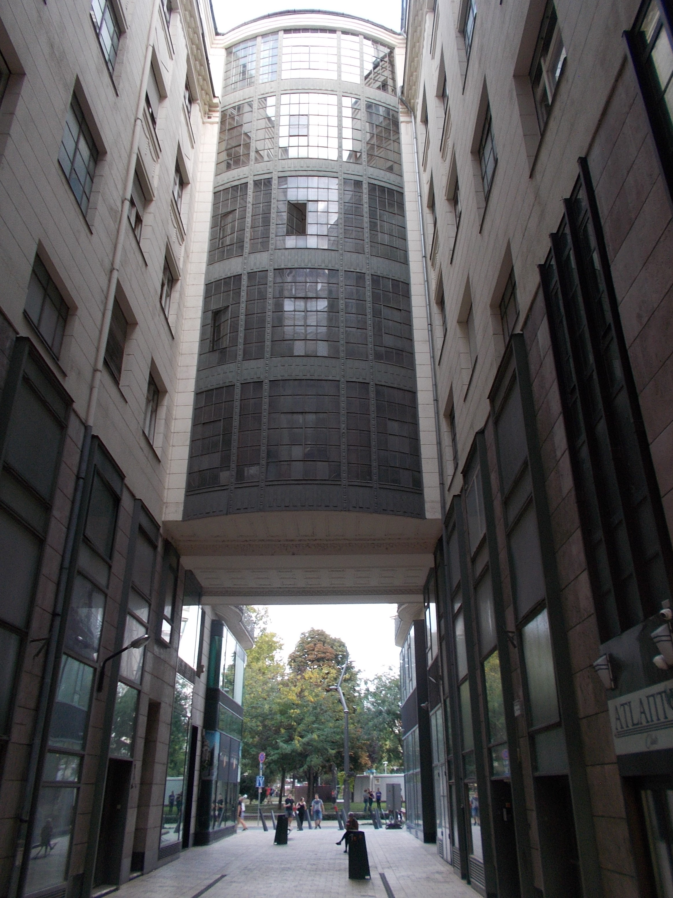 Count Cziráky Yard skyway built in 1910-1912. Planned by Jószef Hild. - 3 Erzsébet tér and 10 József nádor tér, Lipótváros neighborhood, District V of Budapest.